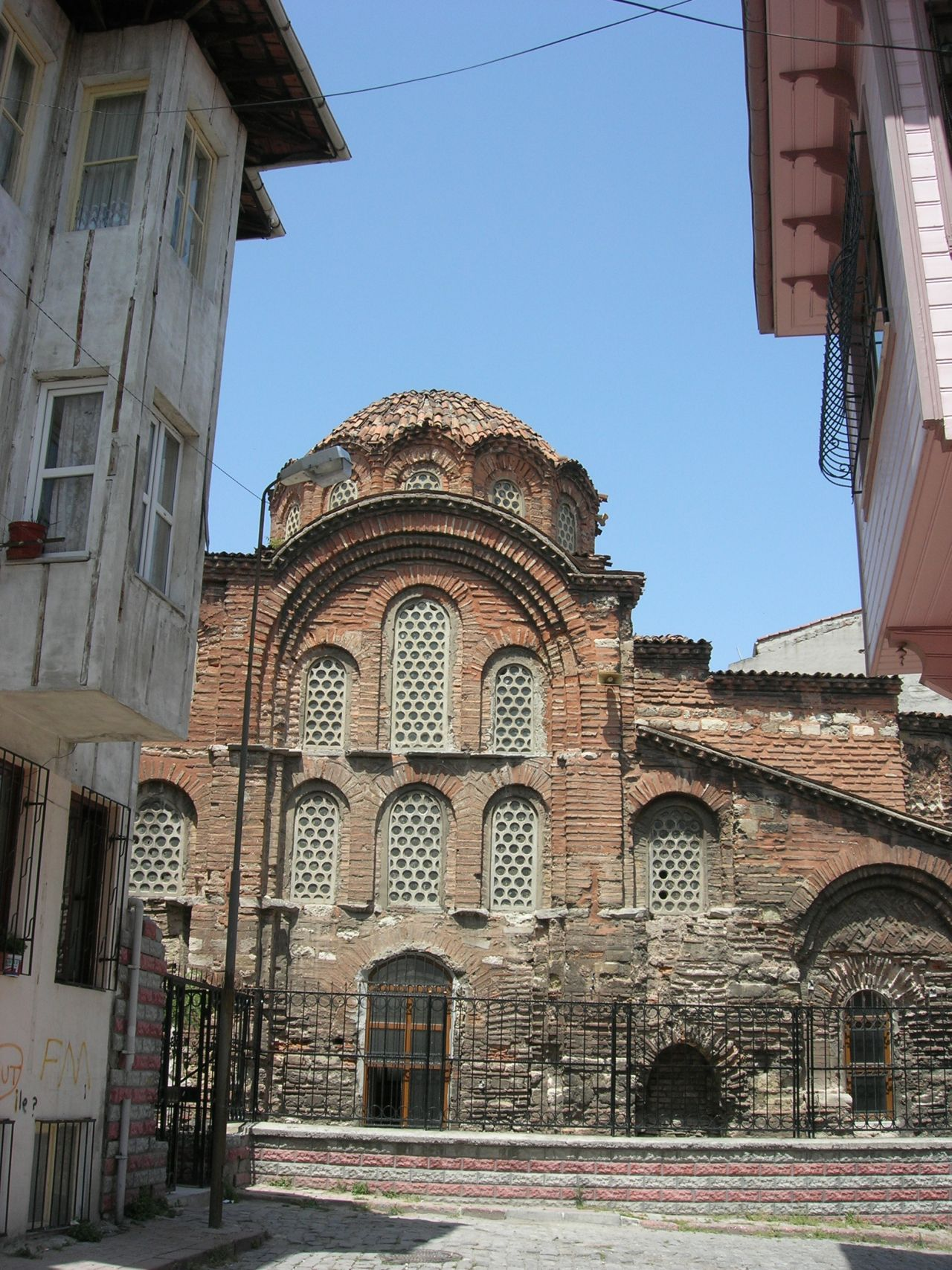 The former Church of the Christos Pantepoptes( today mosque of Eski Imaret) in Istanbul viewed from South